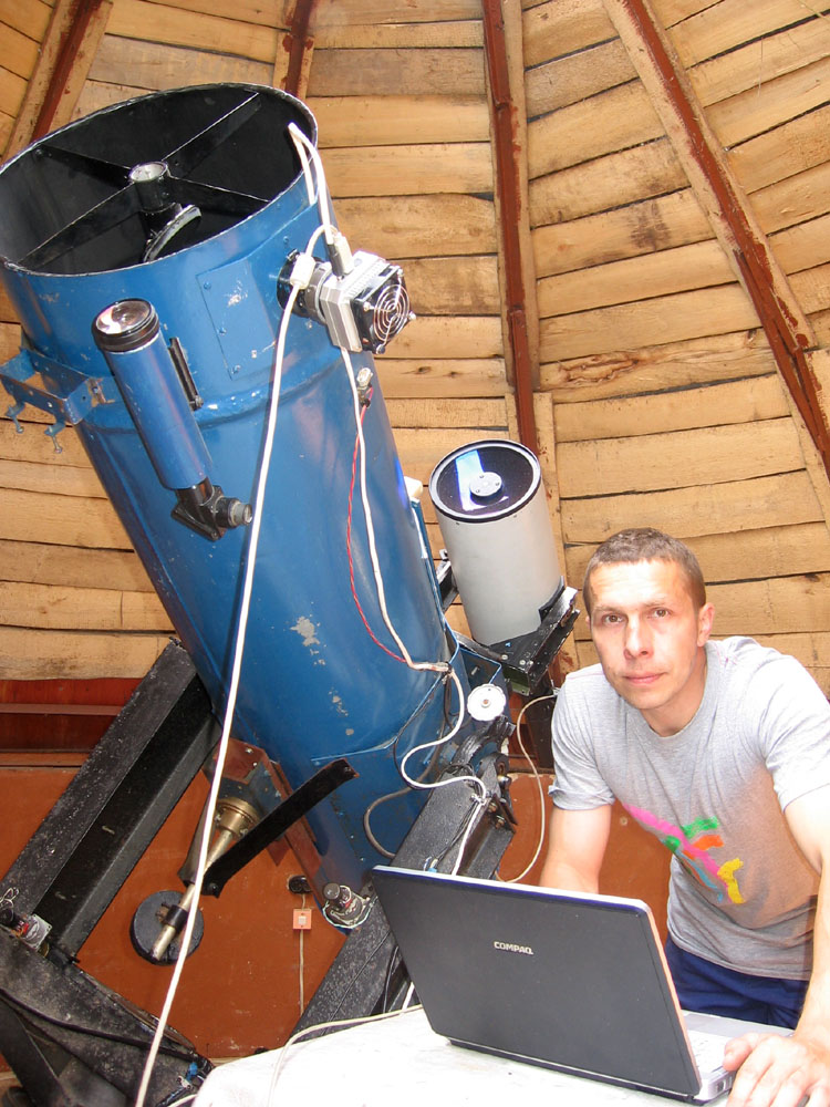 Vitebsk amateur astronomical observatory (MPC COD B42): Vitaliy Nevskiy and 30-cm telescope (Belarus)